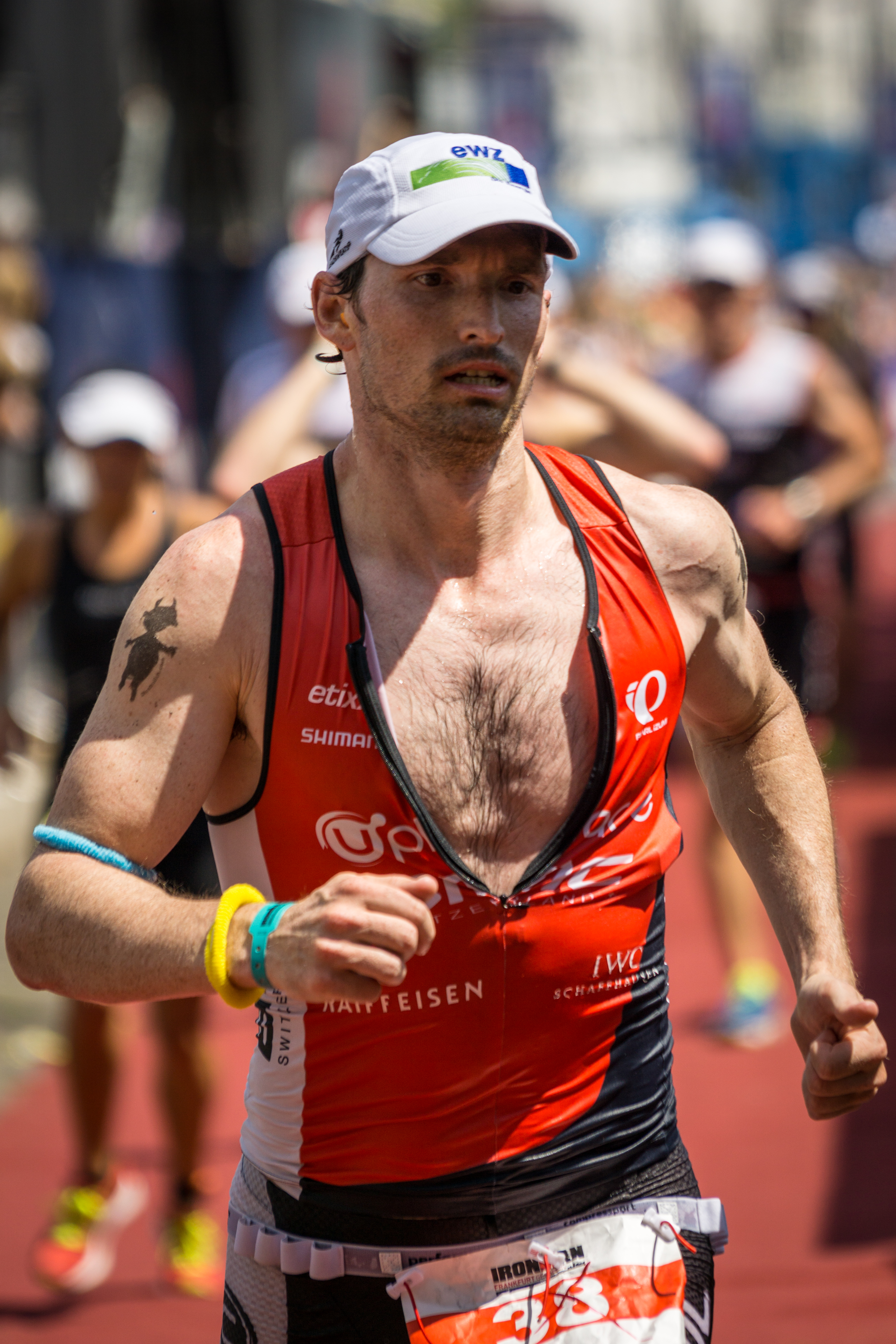 Ronnie Schildknecht at the 2014 Ironman European Championship in Frankfurt am Main (Germany).